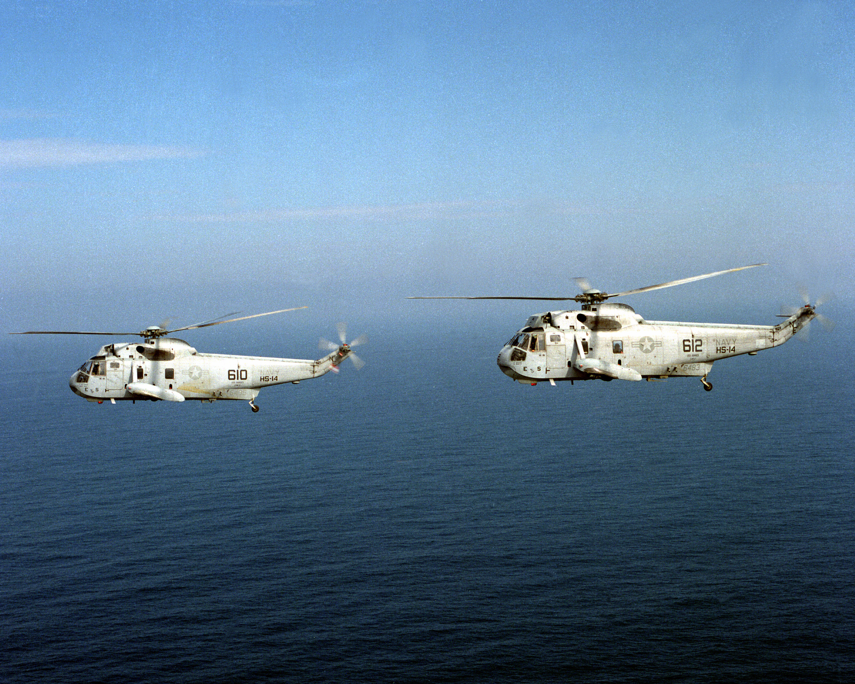 Two U.S. Navy Sikorsky SH-3H Sea King from Helicopter Anti-submarine Squadron 14 (HS-14) Chargers en route to the aircraft carrier USS Ranger (CV-61) as the ship headed out of port to begin its WestPac '90 cruise. HS-14 was assigned to Carrier Air Wing 2 (CVW-2) aboard the Ranger for a deployment to the Western Pacific and the Indian Ocean from 8 December 1990 to 8 June 1991.